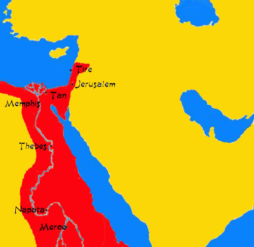 Kushite Empire, circa 700 BC